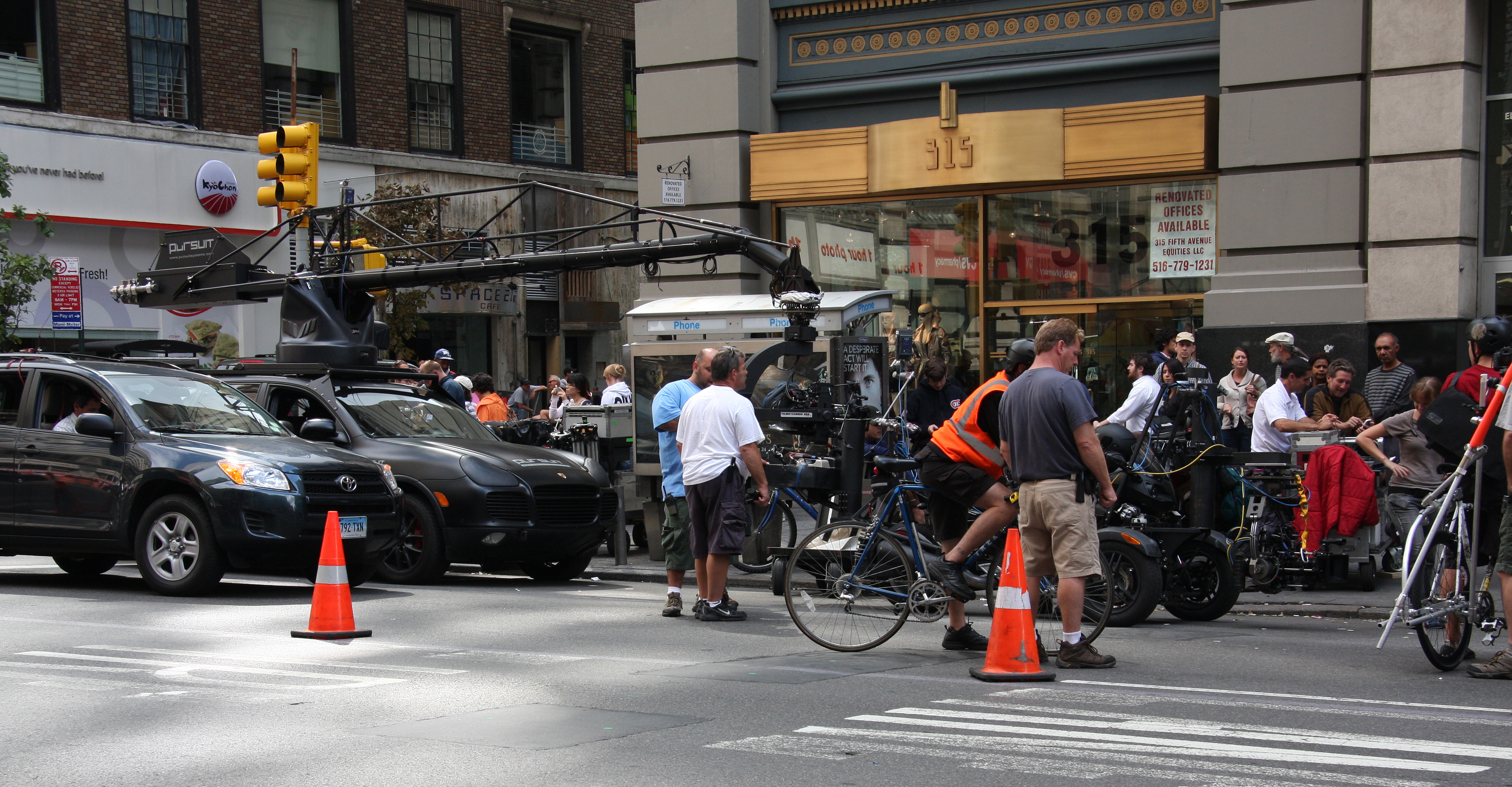 Film crew prepares to shoot a scene for the movie Premium Rush at the intersection of 5th Avenue and West 34th Street (beneath the Empire State Building), Manhattan, New York